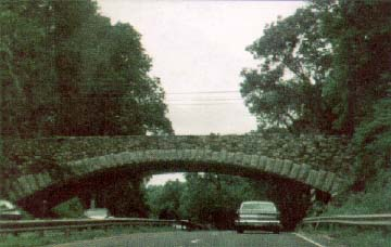 Stone bridge overpass on the Merritt Parkway.